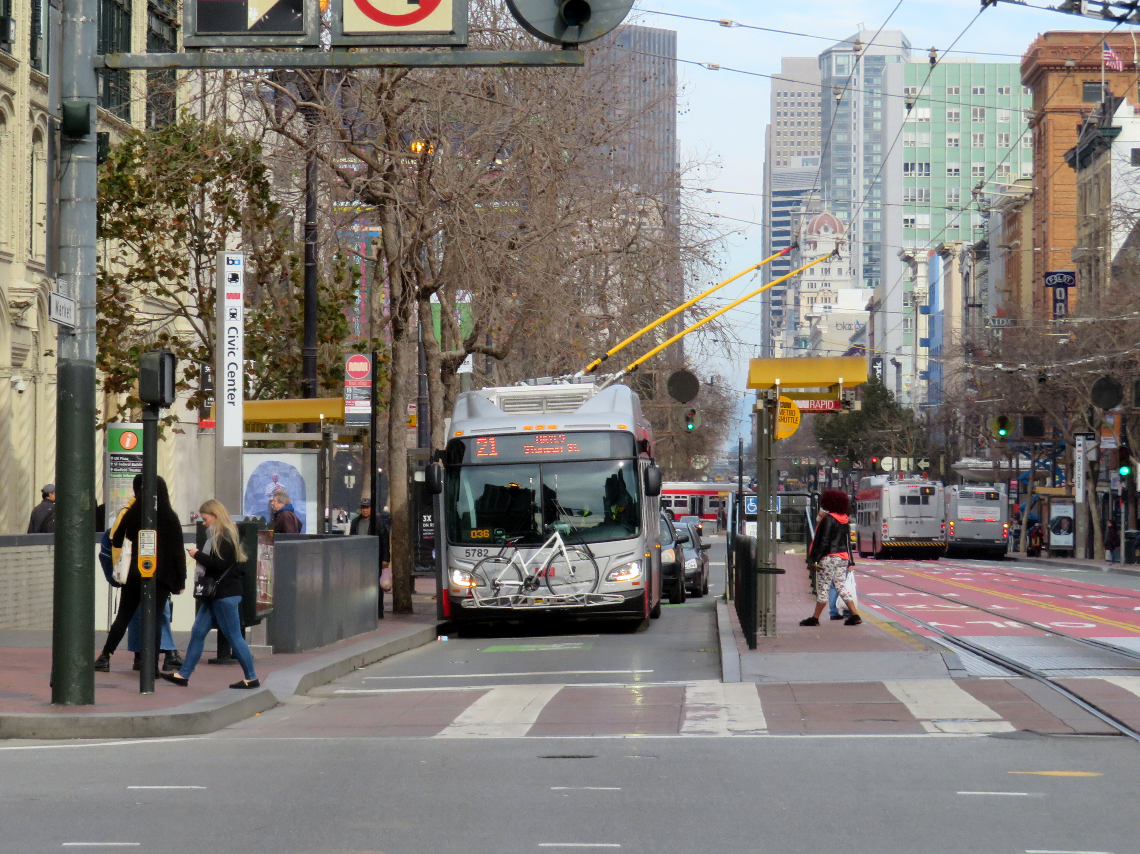 Muni route 21 trolleybus at the curb stop at Market and Hyde in January 2019